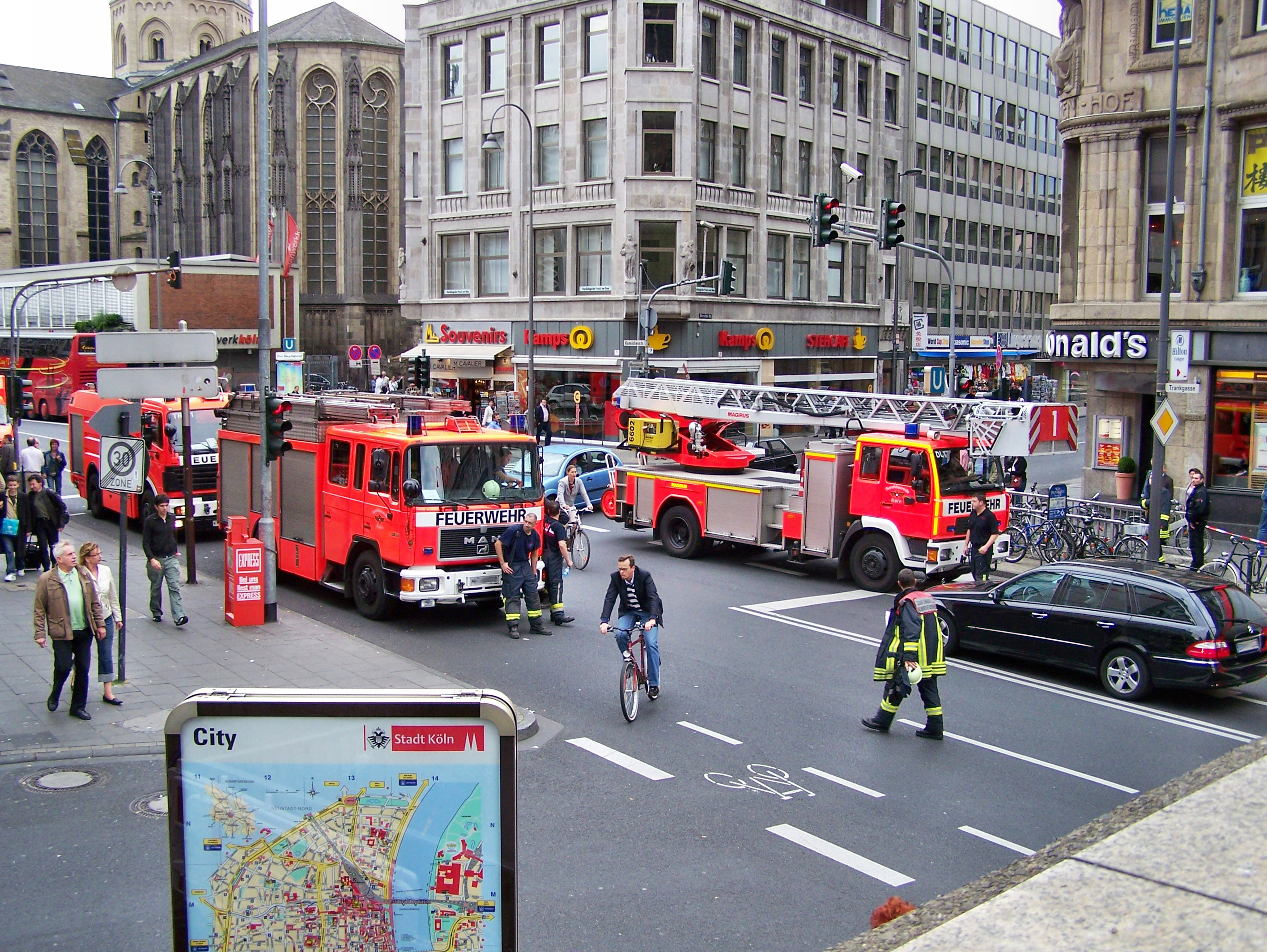 The Cologne Fire Department in a training operation.